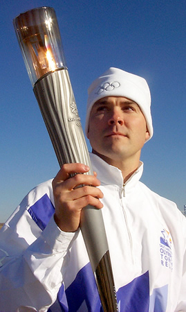 Picture of John Nowak carrying the Olympic Torch to Salt Lake City and the 2002 Winter Games Picture from: License: Information presented on Air Force Services Agency Website is considered public information and may be distributed or copied. Use of appropriate byline/photo/image credits is requested.